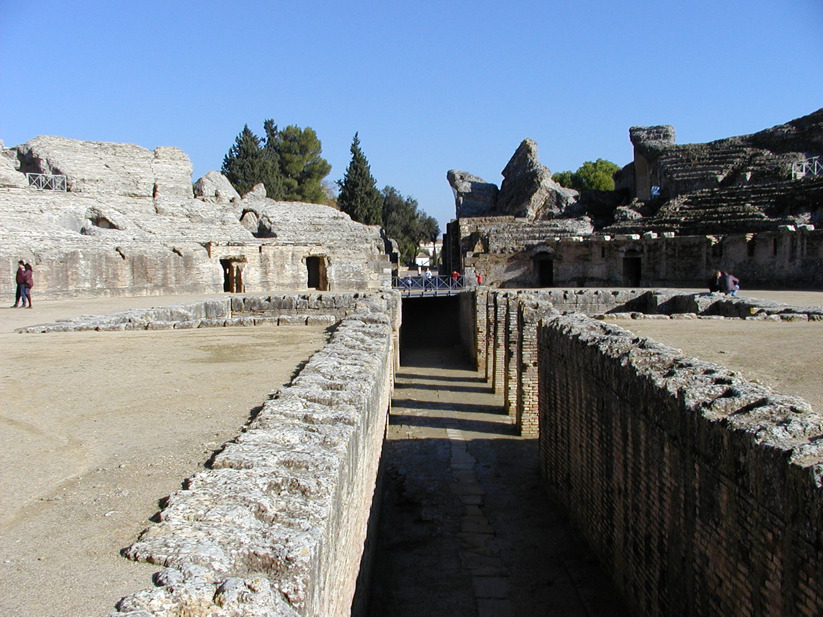 Amphitheatre of Italica, Spain. Copy from Engilsh Wikipedia: Released to the public domain by creator User:Gracee